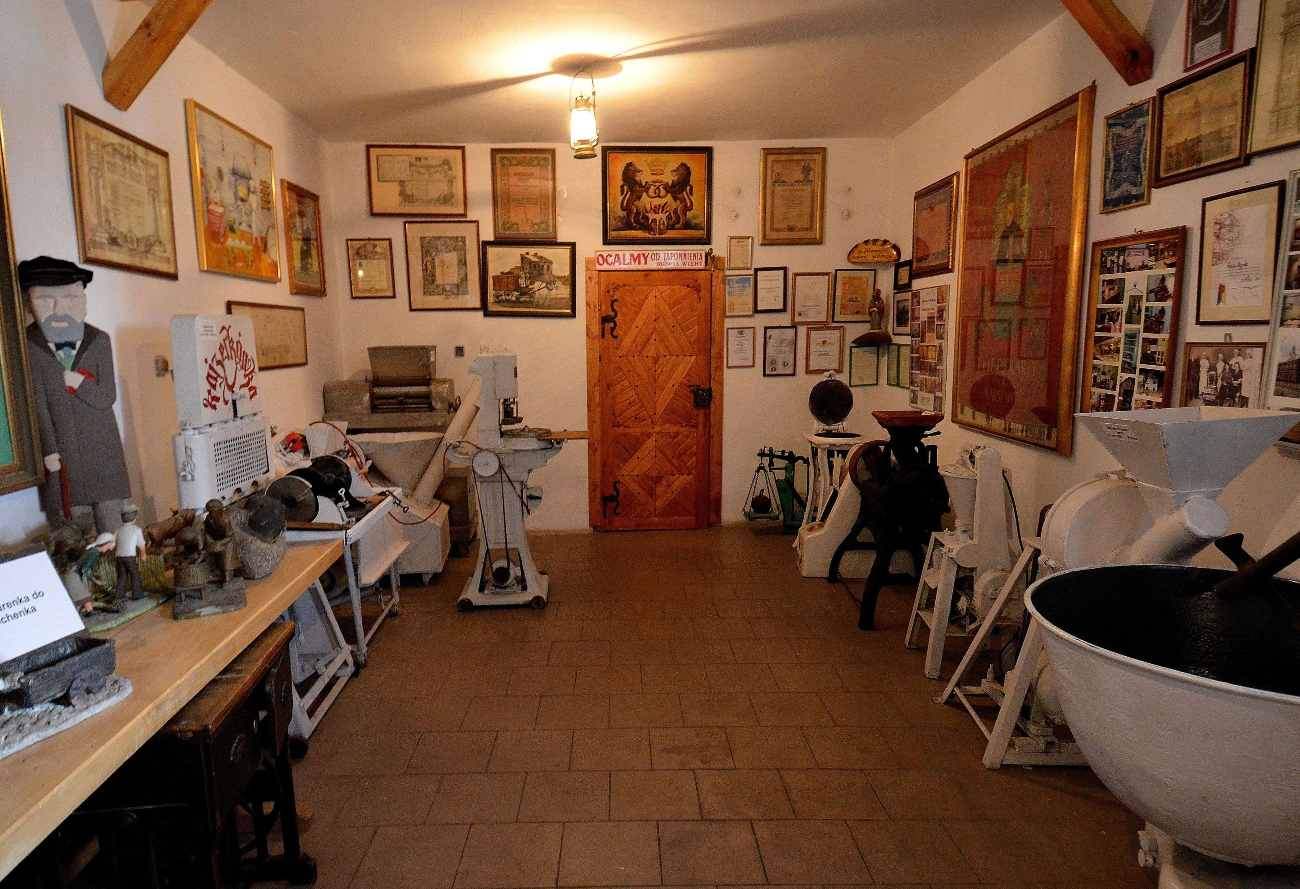 Bread Museum at 2 Jadowska Street in Warsaw